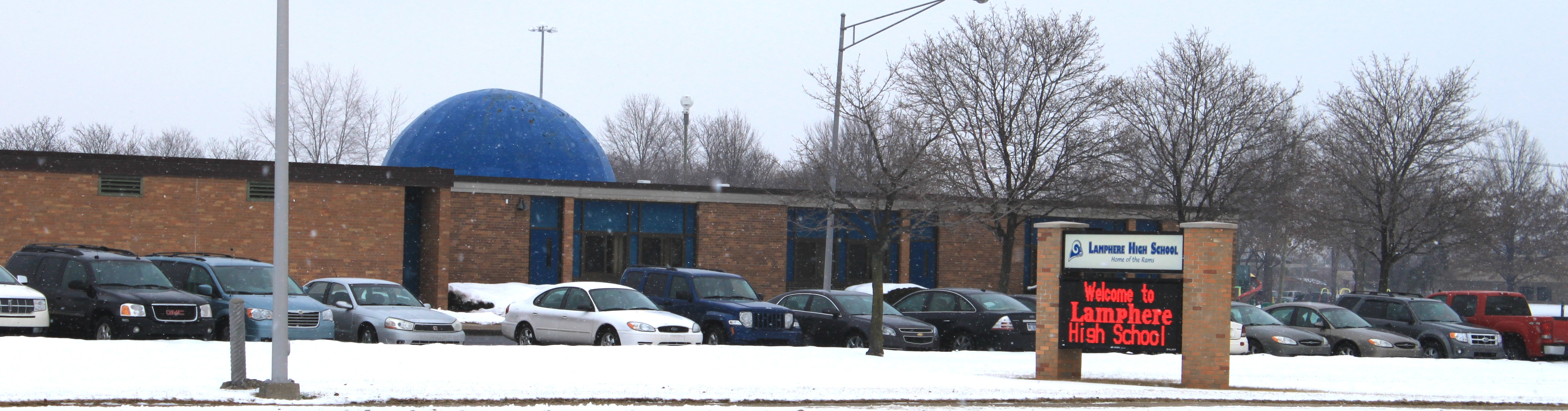 Lamphere High School, 610 West 13 Mile Road, Madison Heights, Michigan